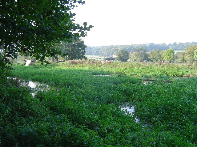 River Chess watercress beds at Moor Lane, Sarratt Bottom nature reserve, Sarratt. From the Chess Valley Walk official guide: "The clean warm waters of the Chess create ideal growing conditions for watercress, once a common crop along the river but now grown only here at Sarratt. Water from the Chess is diverted into a series of growing compartments - 'beds'. The cress takes root in the shallow beds, taking minerals from the calcium rich water. The flow is added to by spring water from deep in the aquifer which is at a constant temperature - about 10ºC. In years when the air temperature remains high enough the warm water allows cultivation right through the winter."